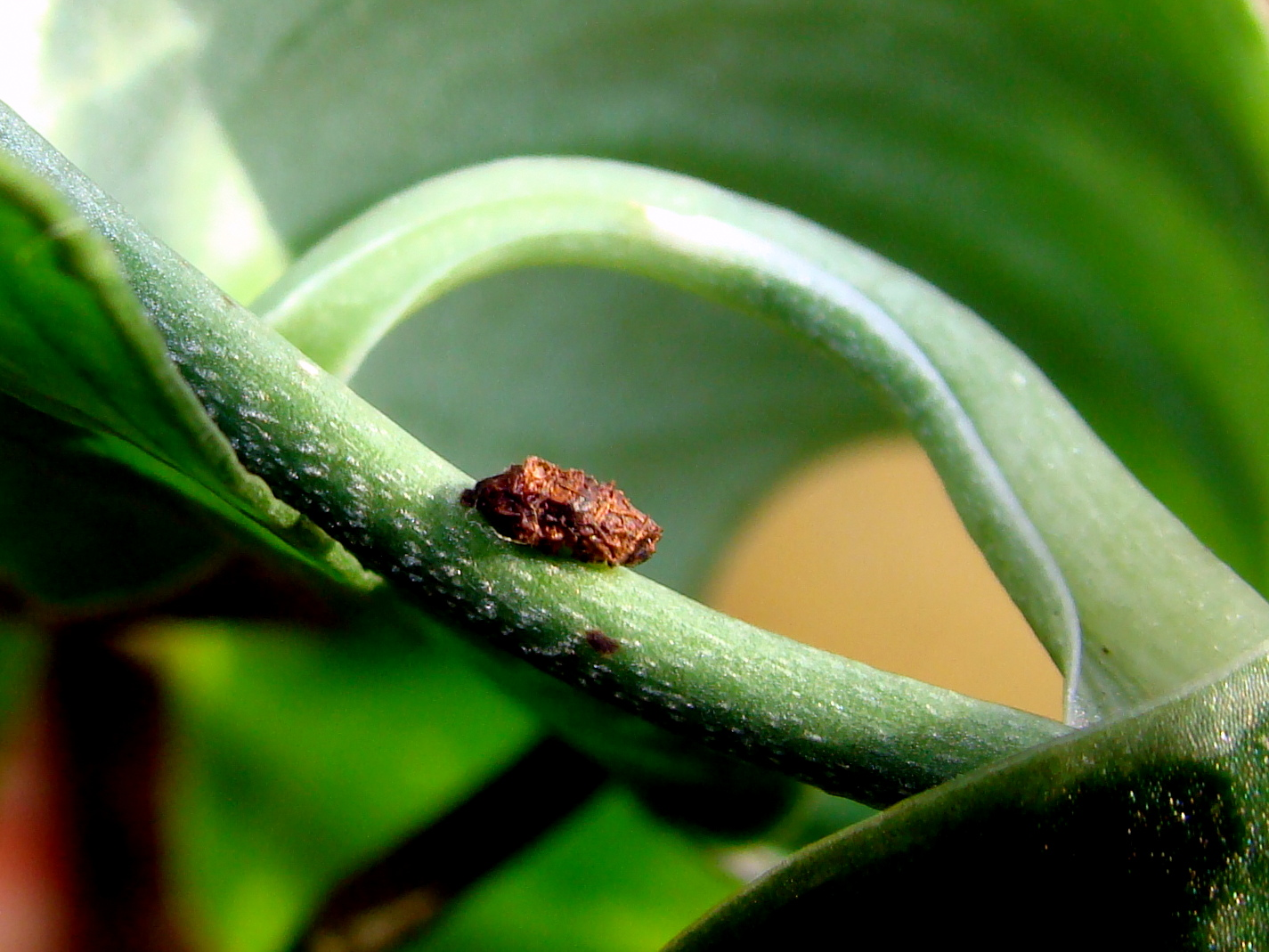 The feces of poison dyeing dart frog Dendrobates tinctorius on the plant.